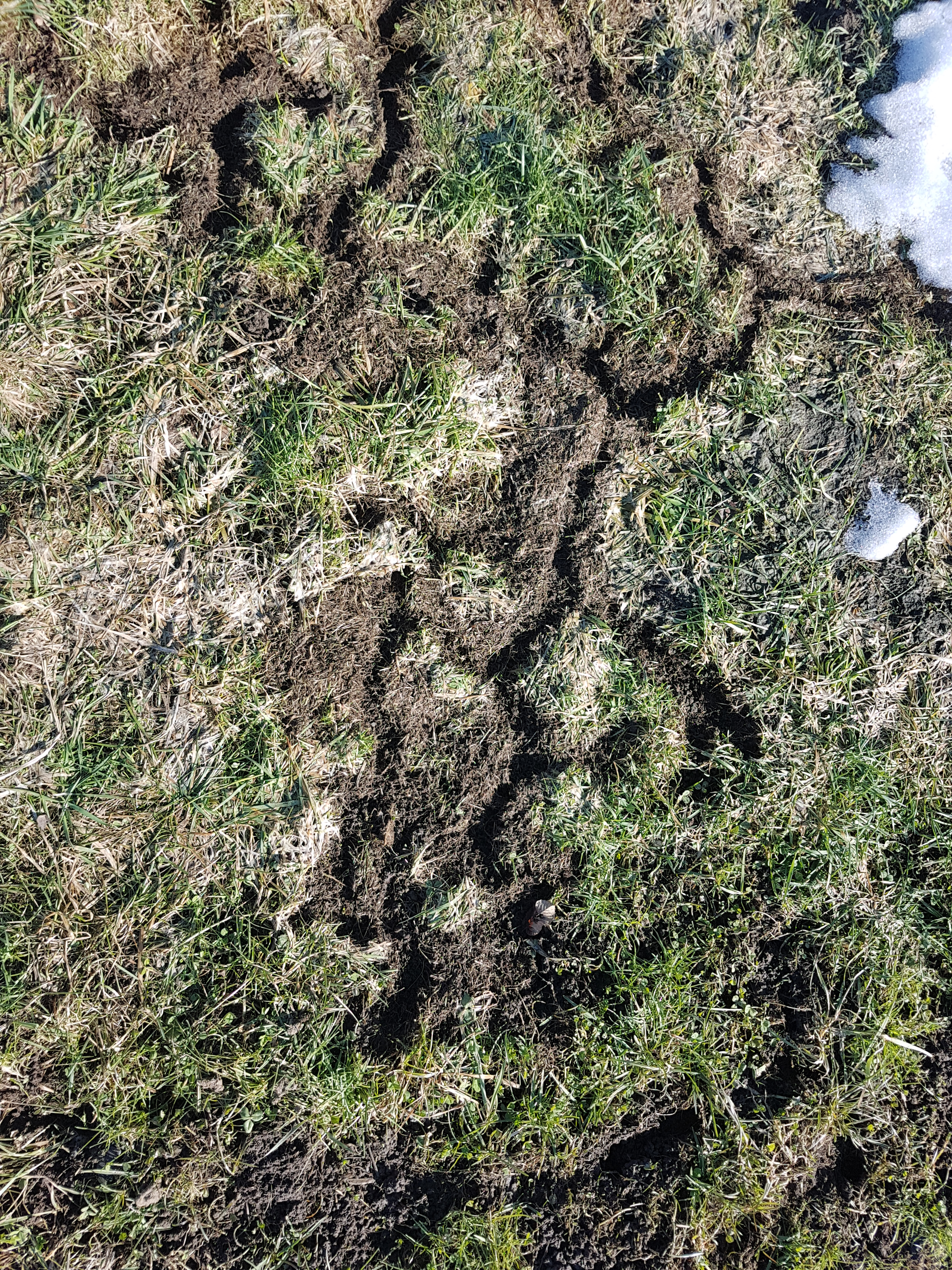 From snow disapered now visible passages from field mouses (Microtus arvalis) in the Ried (marsh) in Dornbirn, Vorarlberg, Austria (February 2019).